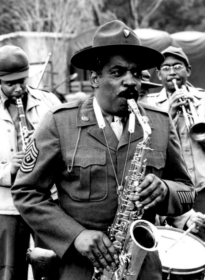 Photo of Mel Stewart as Sergeant Bryant from the short-lived television series Roll Out.